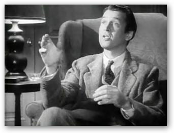 Cropped screenshot of James Stewart from the trailer for the film Harvey